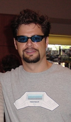 Mancow at a Star Trek Convention.